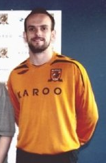 Stuart Elliott. Image cropped from original at flickr.